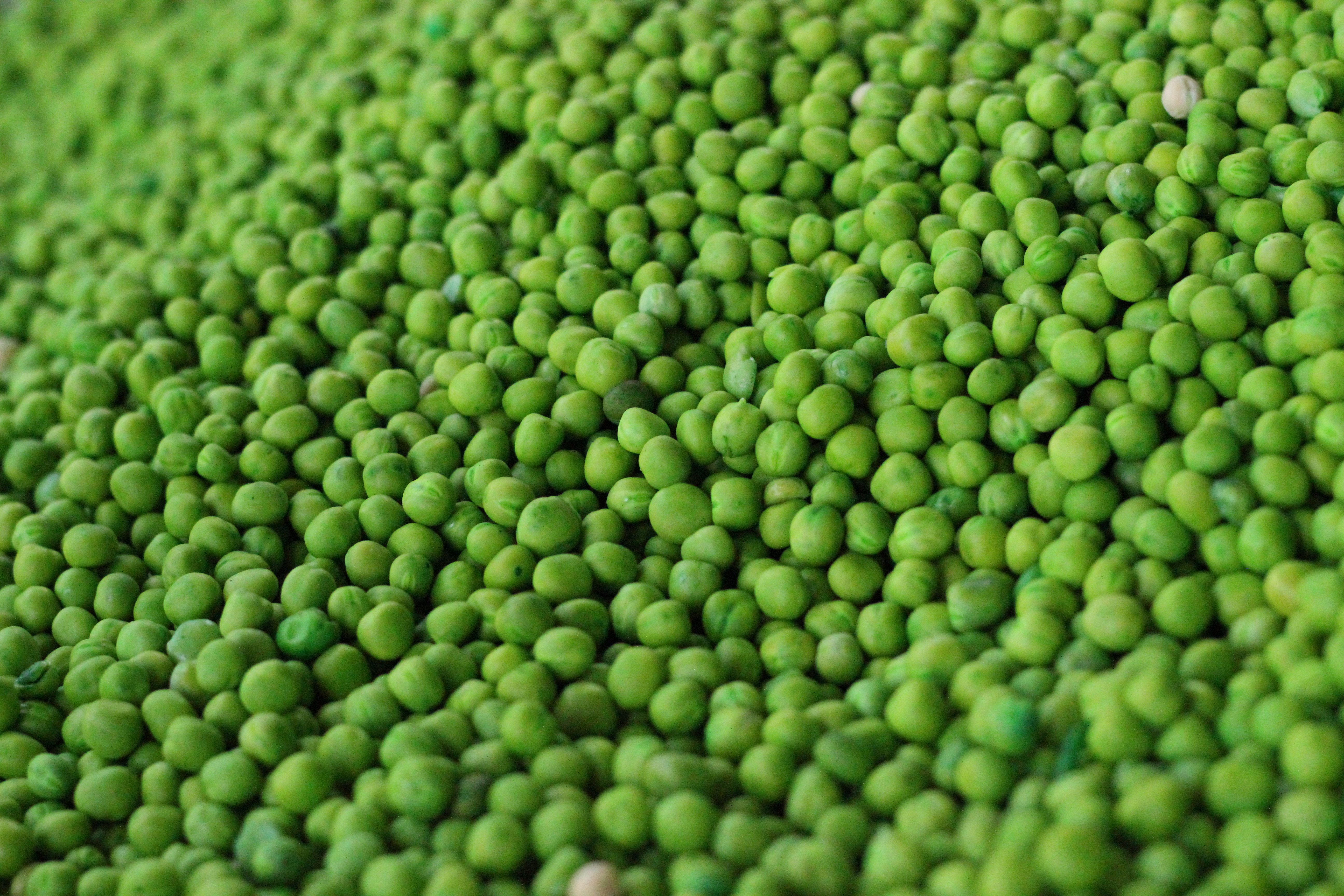 Peas with artificial colors